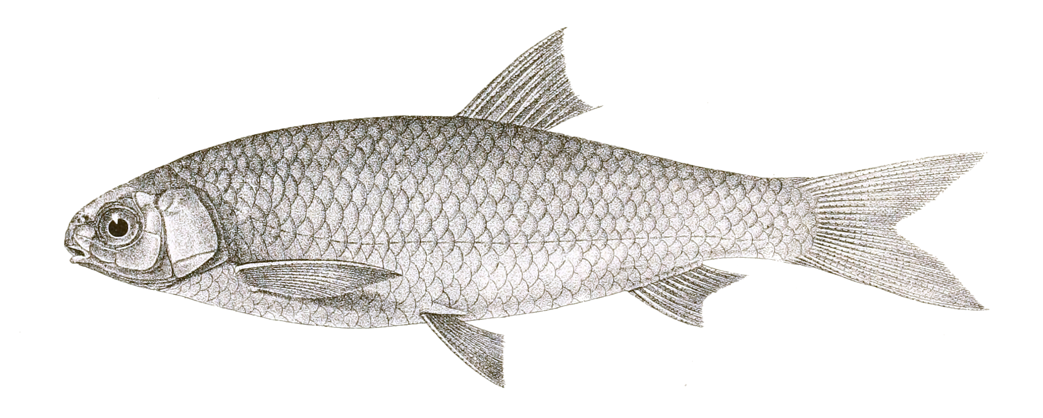 The species names / identity need verification - original names from plate are included here. The original plates showed the fishes facing right and have been flipped here. Aspidoparia morar